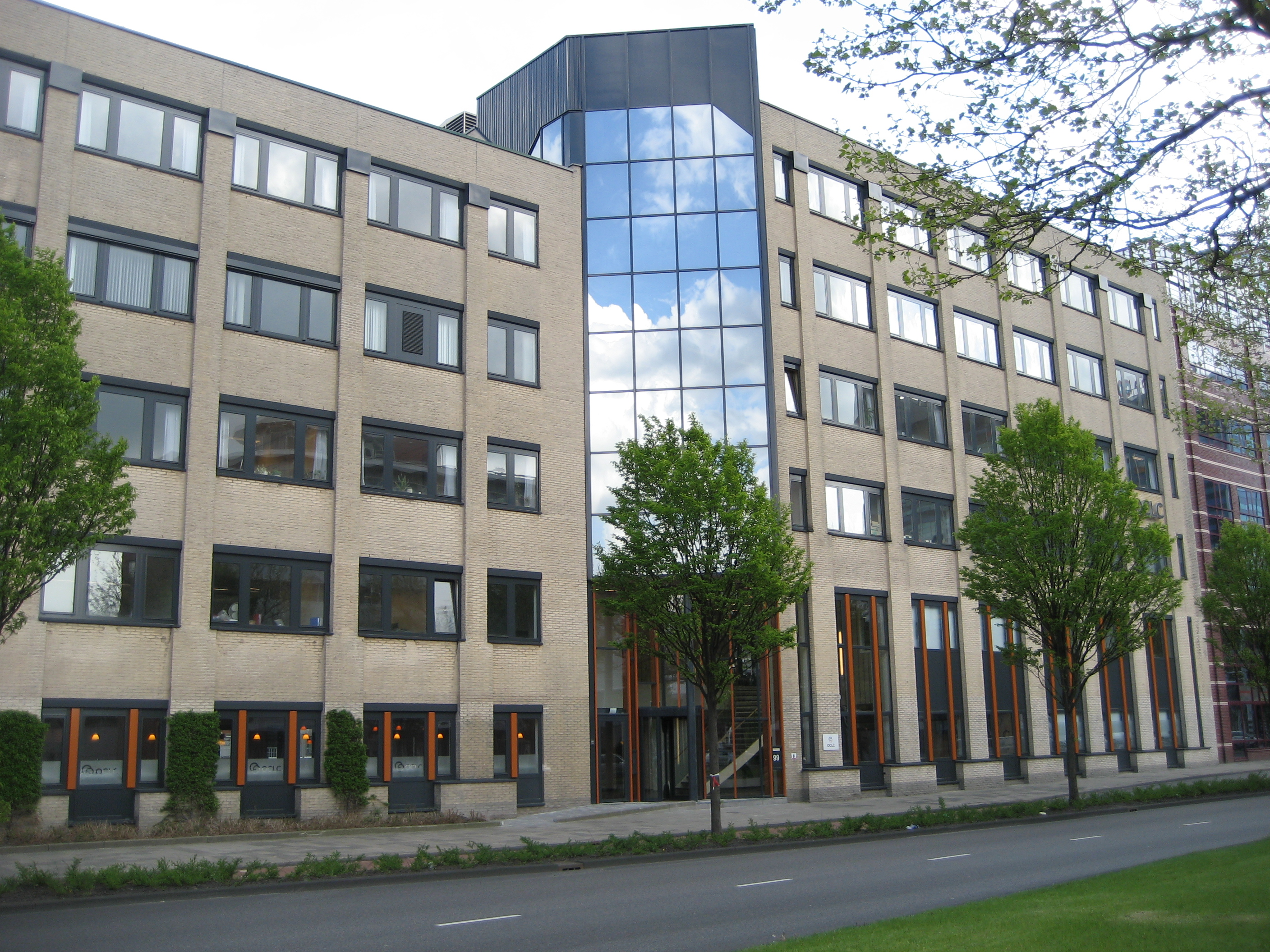 OCLC EMEA, Schipholweg 99, 2316XA Leiden, The Netherlands. (Formerly PICA)